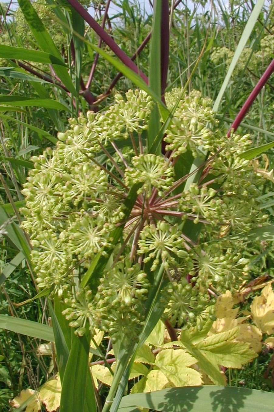 Angelica archangelica: Flowers.